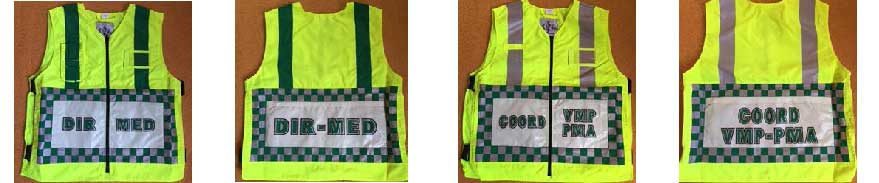 Yellow chasubles with function specification in a fluorescent rectangle surrounded by grey-green Battenburg markings for for persons with a specific function in the (medical) care chain within the framework of the Medical Intervention Plan. The image comes from the Circular DGH/2017/D2/Medisch interventieplan as published in the Belgian Official Journal of 2017-02-17 second edition (pages 25145 to 25179).